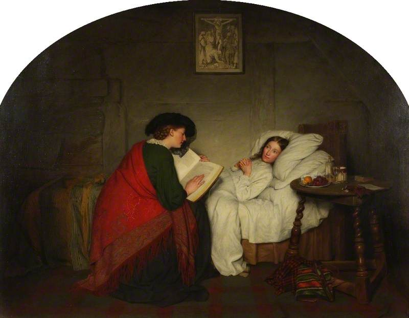 Davis, Edward Thompson; Words of Comfort; Worcester City Museums; oil on panel; 23 x 17 cm